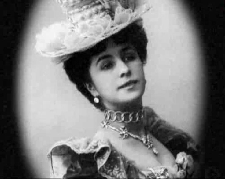 Mathilde_Kschessinska in a costume for the polka Folishon